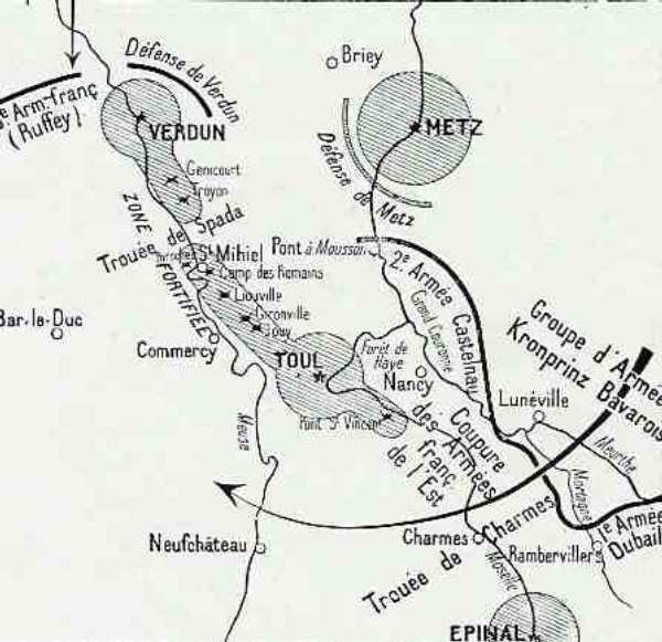 German objectif on 24 august 1914 at the start of the battle of the Trouée de Charmes